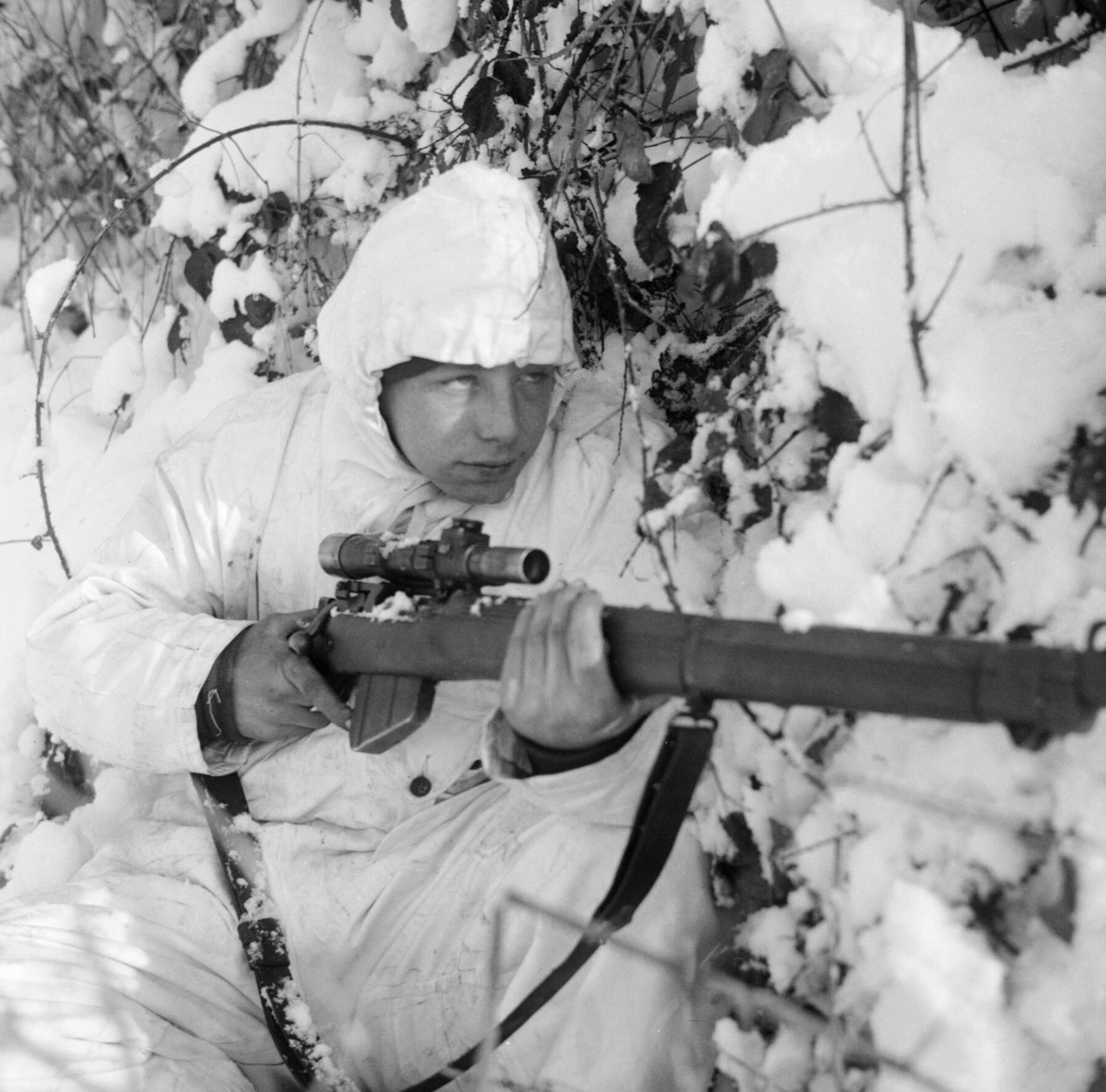 A 6th Airborne Division sniper on patrol in the Ardennes, wearing a snow camouflage suit, 14 January 1945.